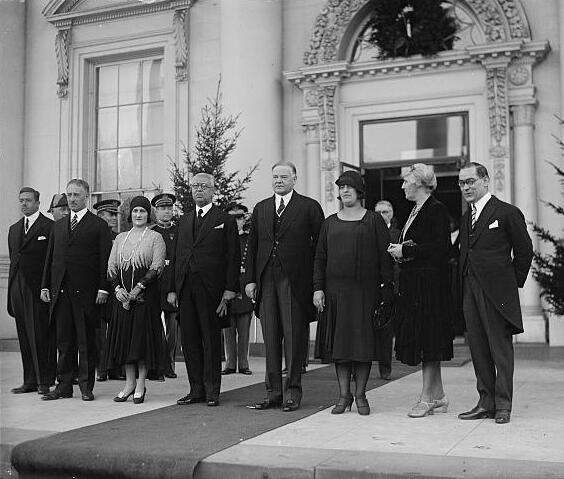 Depicted people: Mabel White, Pascual Ortiz Rubio, Herbert Hoover, Josefina Ortiz and Manuel C. Téllez